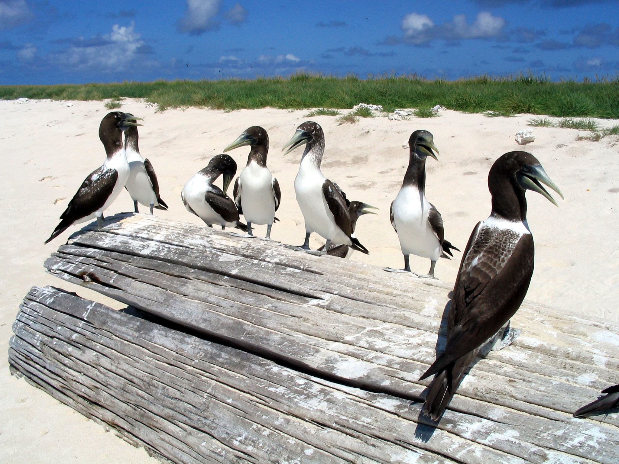 Young Masked Boobies Sula dactylatra on Green Island, Kure Atoll, Northwestern Hawaiian Islands